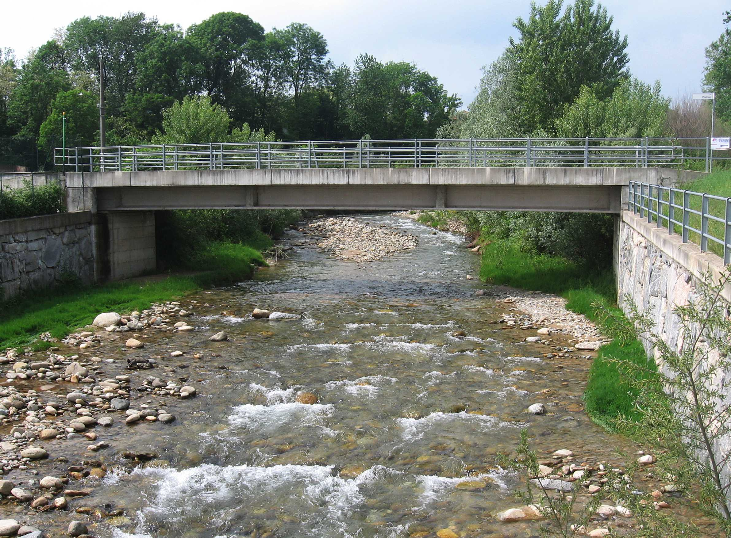 Bridge on the Viona (Mongrando, BI, Italy)